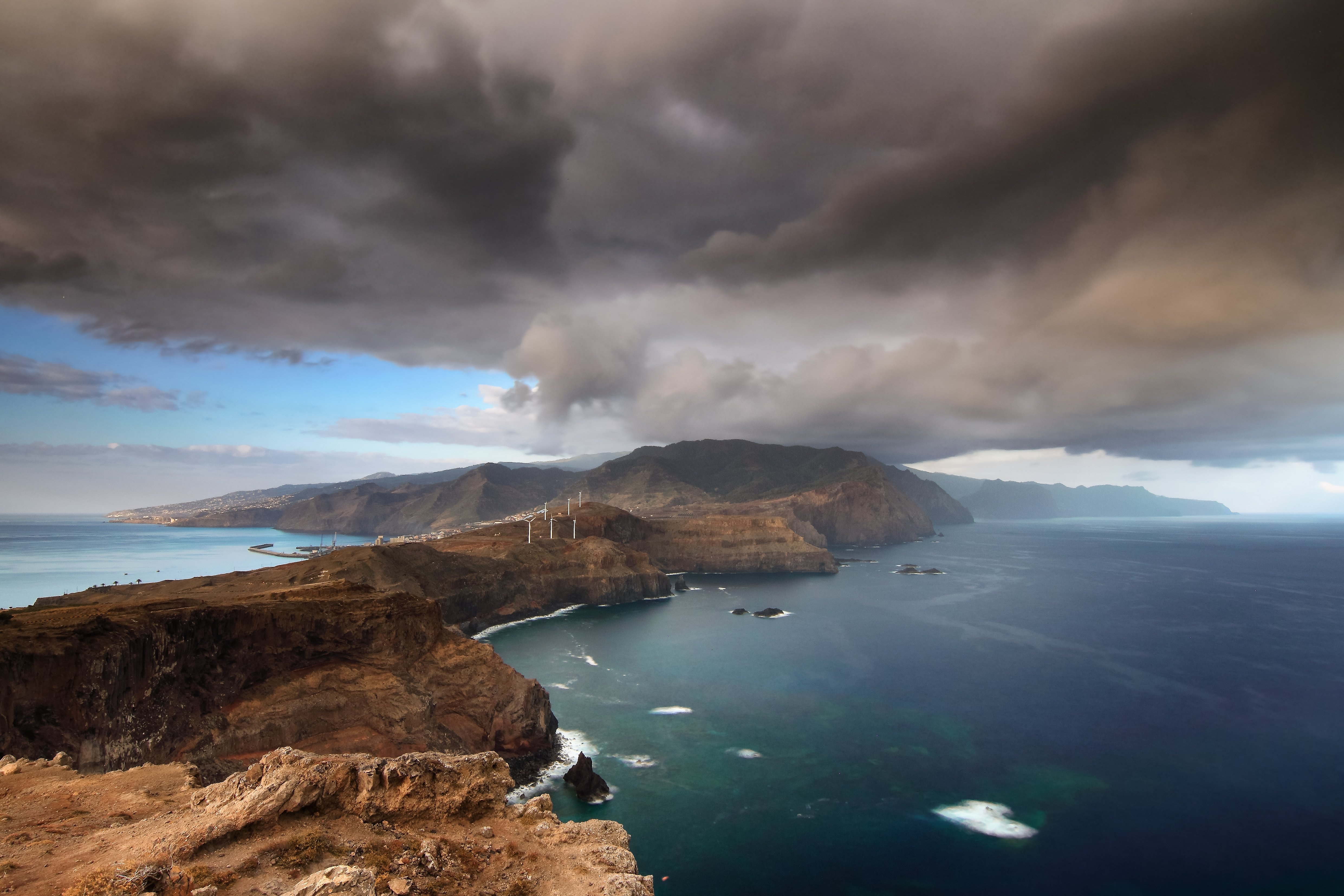 Ponta de são lourenço, madeira island